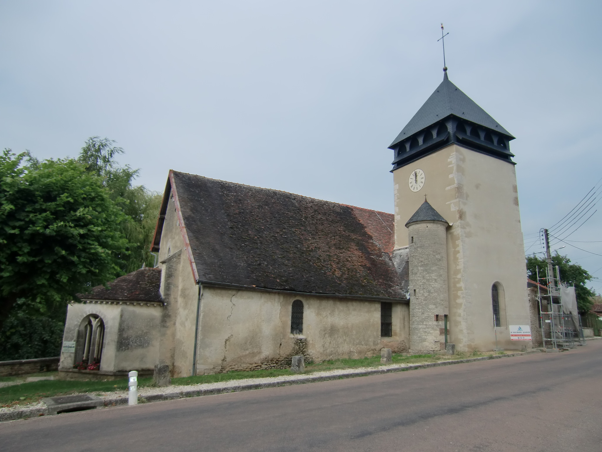 Eglise Saint-Michel de Trannes (Aube, France)